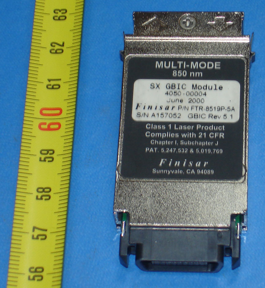 1000baseSX Gigabit Ethernet GBIC. Scale in cm / mm. Photo taken by me 22:23, 17 November 2005 (UTC)